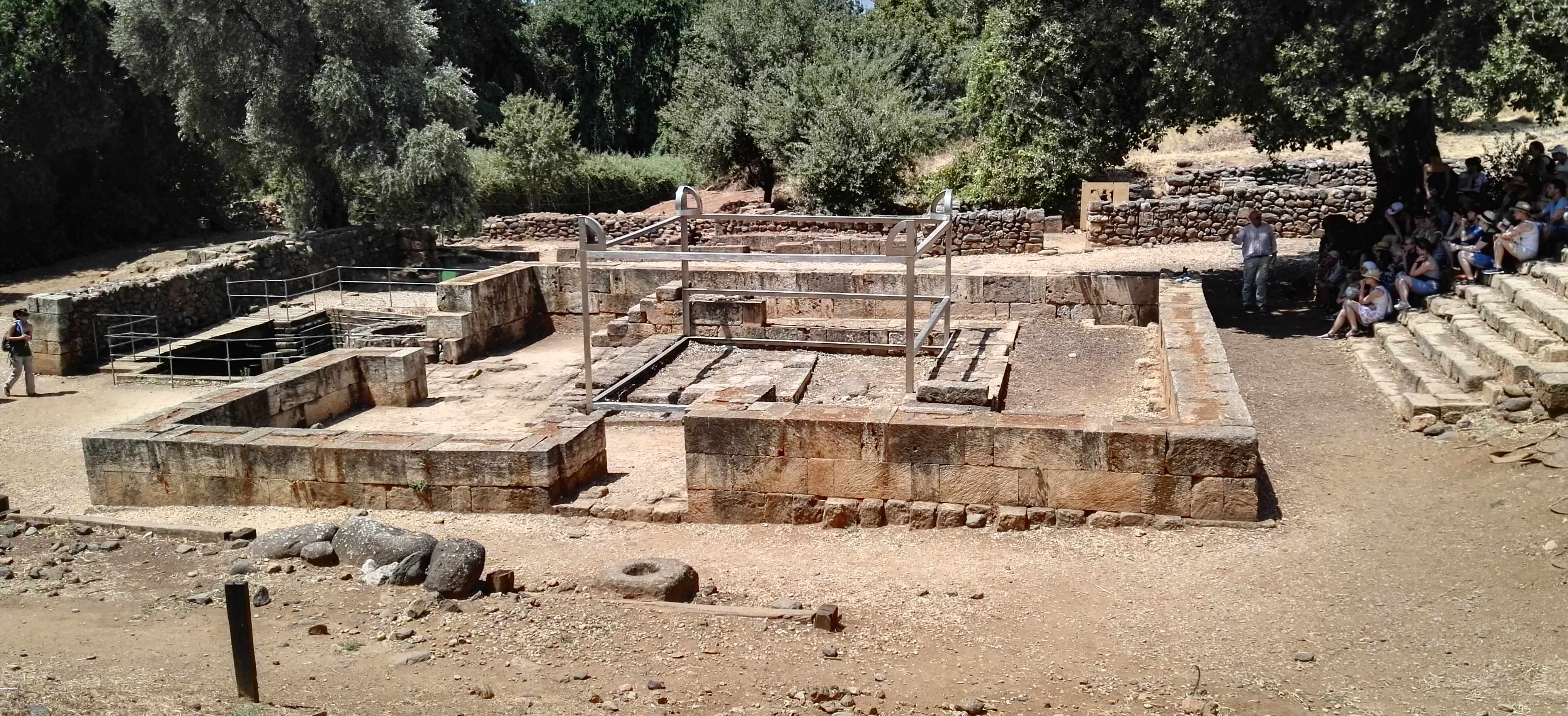 Tel Dan archaeological site, Israel.